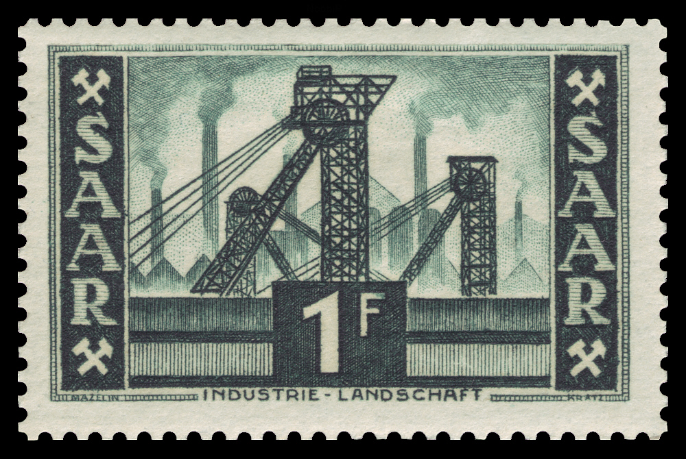 stamps series “Ansichten aus dem Saarland” (“Saar V”)